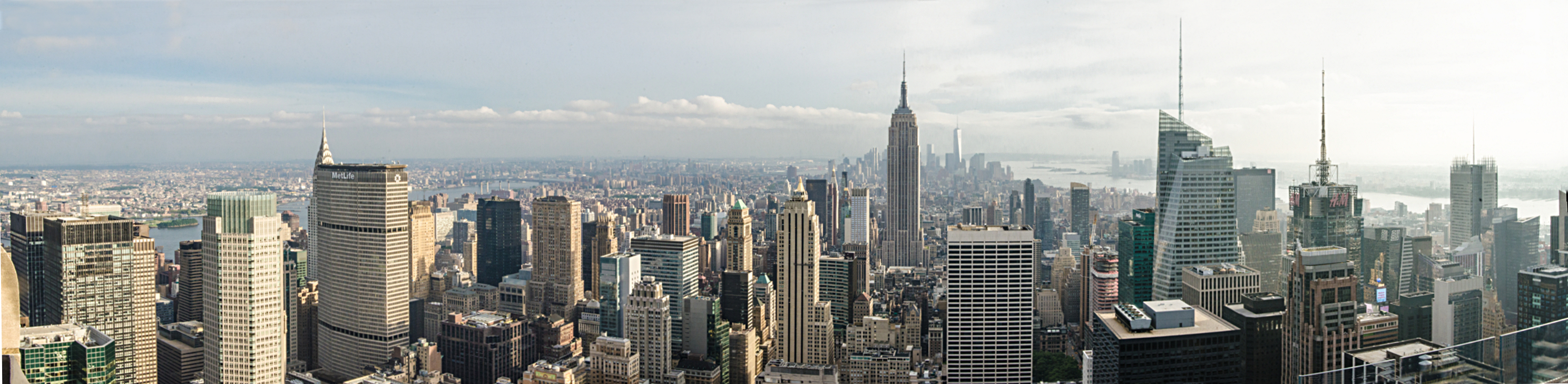 Manhattan from Top of the Rock